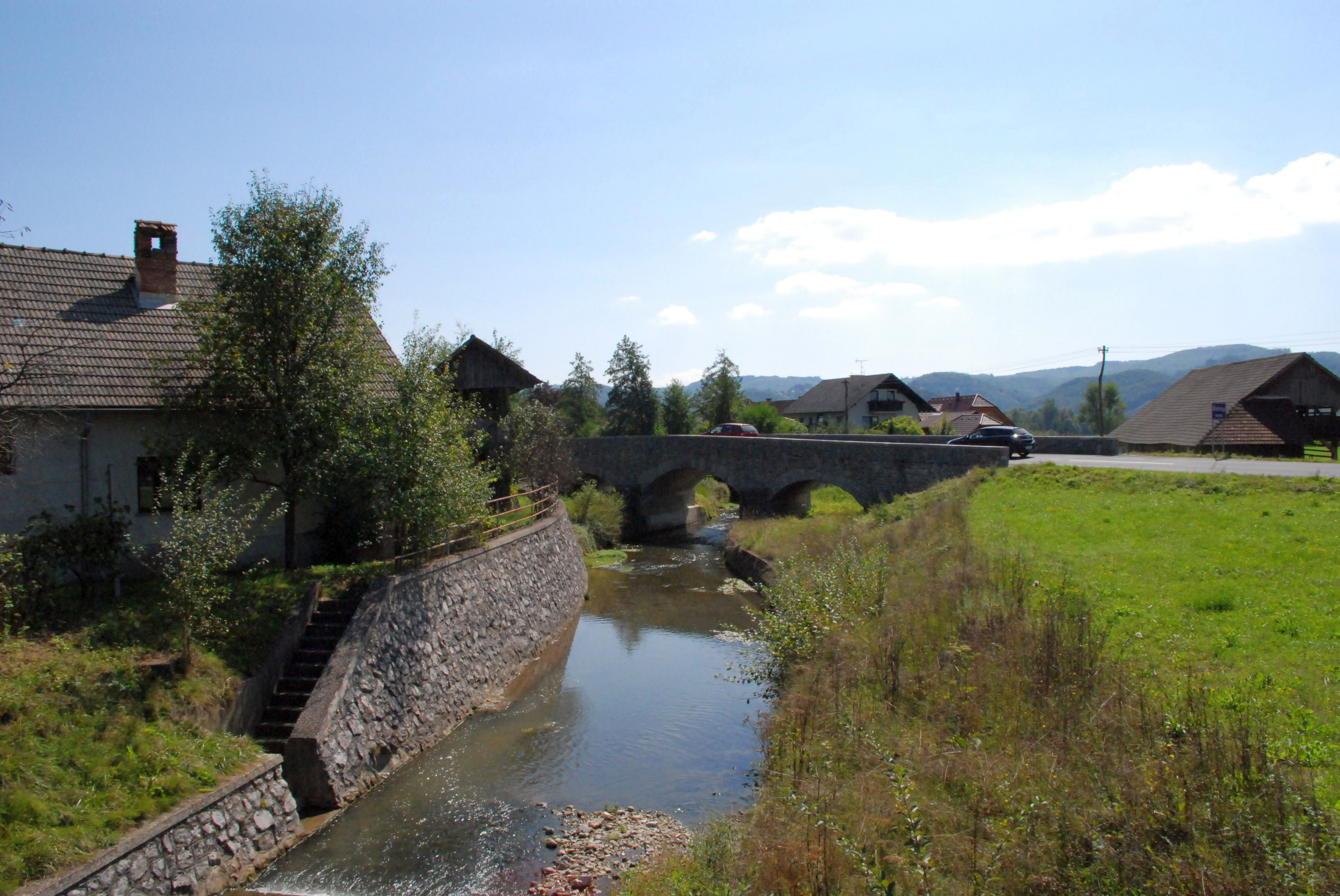 View of the main road bridge over Bistrica Creek in Bistrica, Municipality of Šentrupert, Slovenia. The bridge was built in 1830.